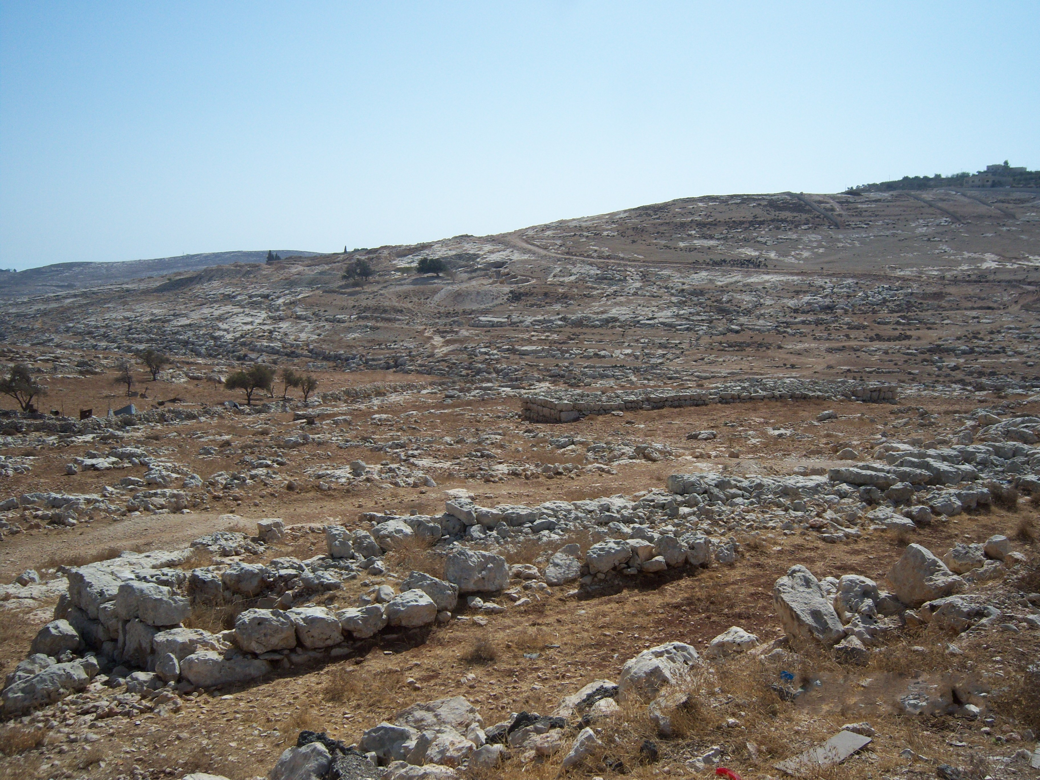 kubur_beney_israil